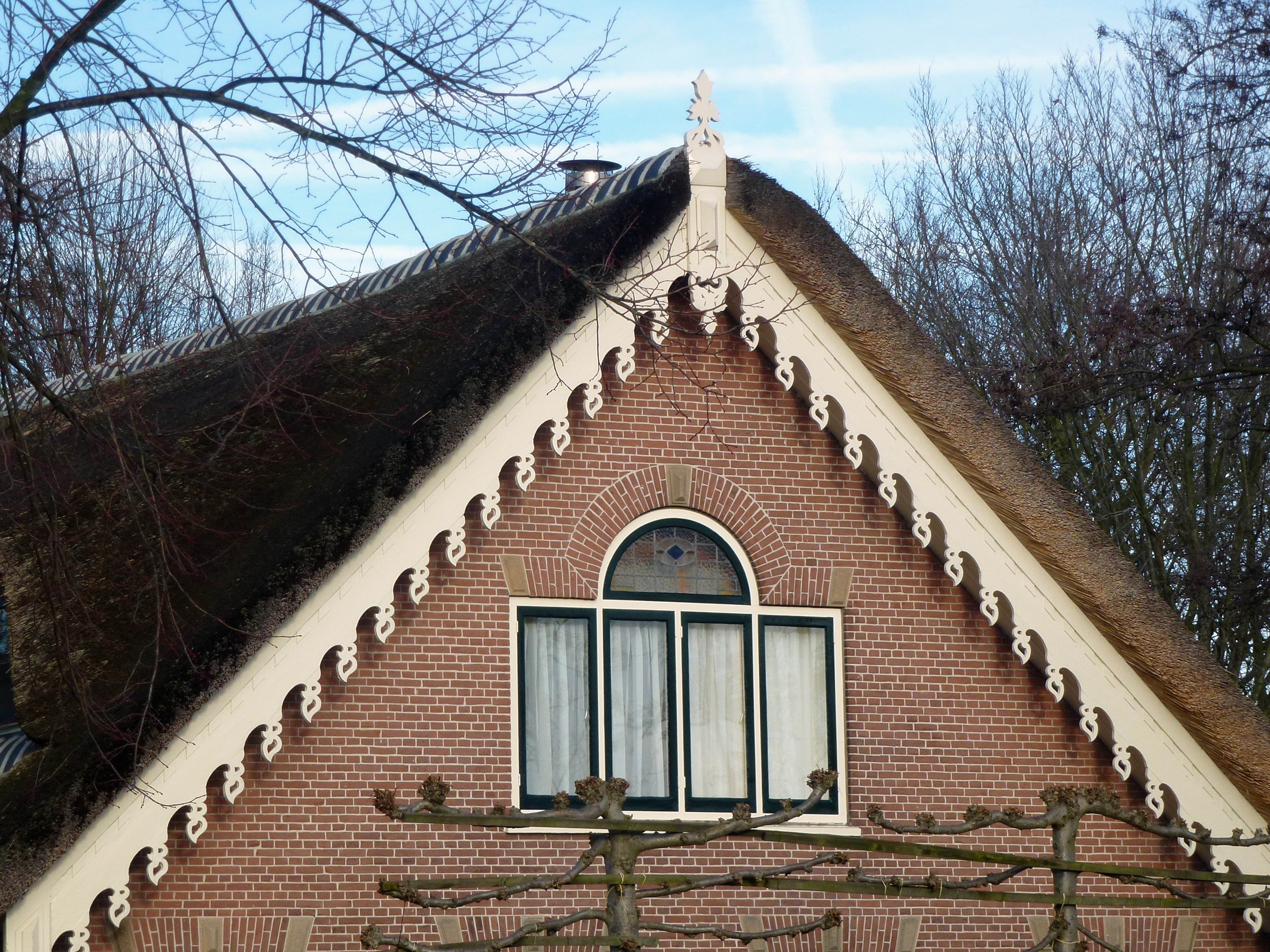 Detail of a farmhouse with a thatched roof in Gouda nl